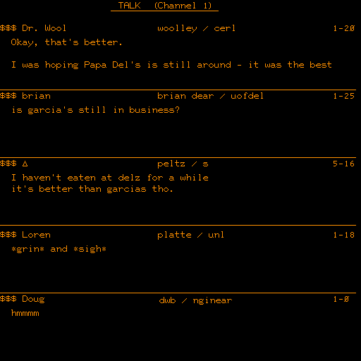 Recreation screenshot of the original Talkomatic program, released in 1973, on the PLATO system. You run the program and it is a single chat-room with 5 channels where people type text and it appears in real time as they type, on the screen. This image is a recreation by David Woolley using the modern-day PLATO emulator for an article on David's blog.